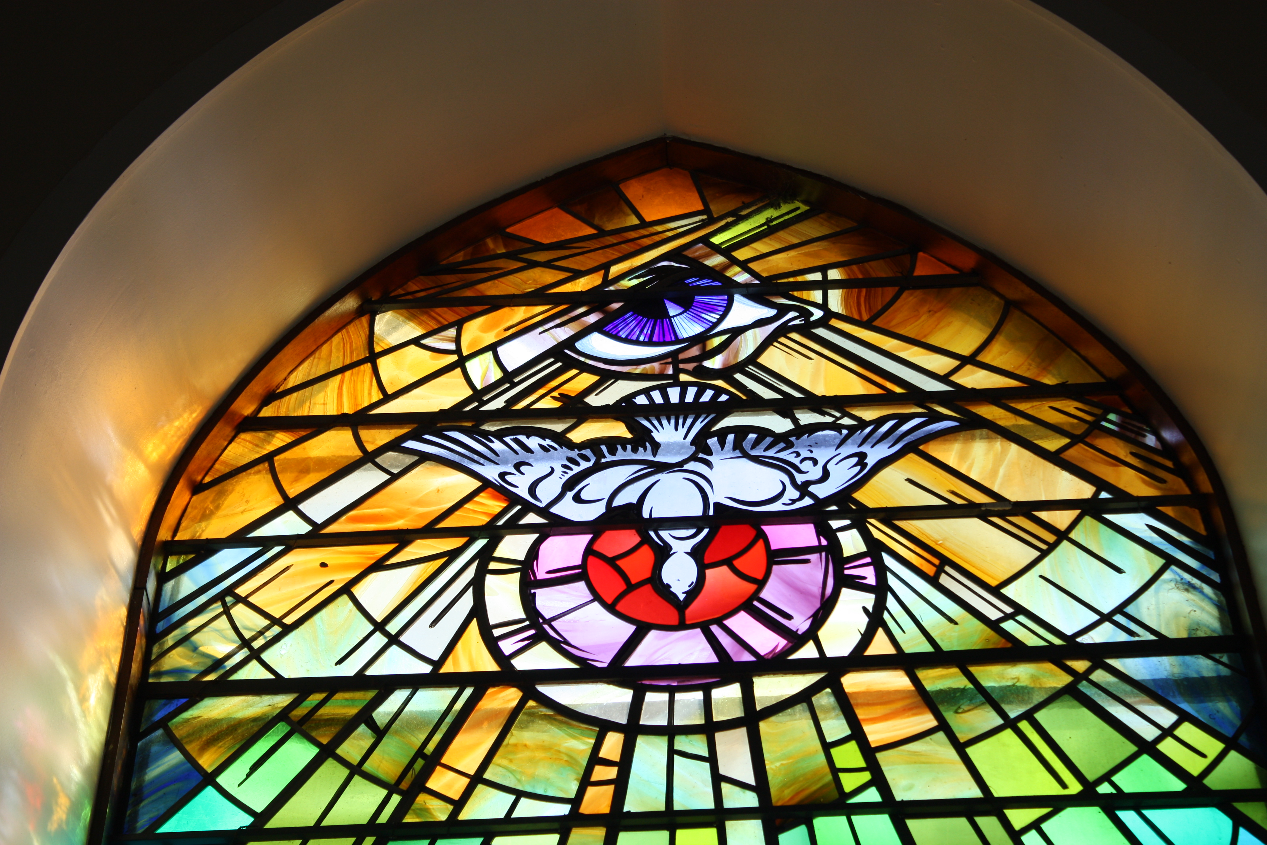 Stained glass window (detail) in Holy Family Roman Catholic Church, Annacloy Road, Teconnaught/Annacloy, County Down, Northern Ireland, September 2010